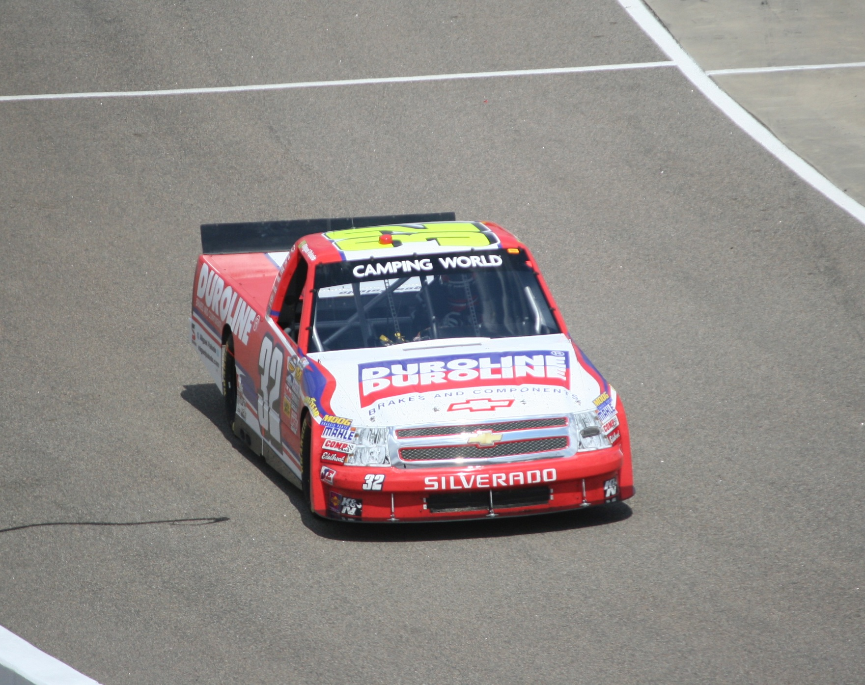 Miguel Paludo drives the No. 32 Duroline Chevrolet for Turner Motorsports in the NASCAR Camping World Truck Series Good Sam Club 200 at Rockingham Speedway, April 15, 2012.